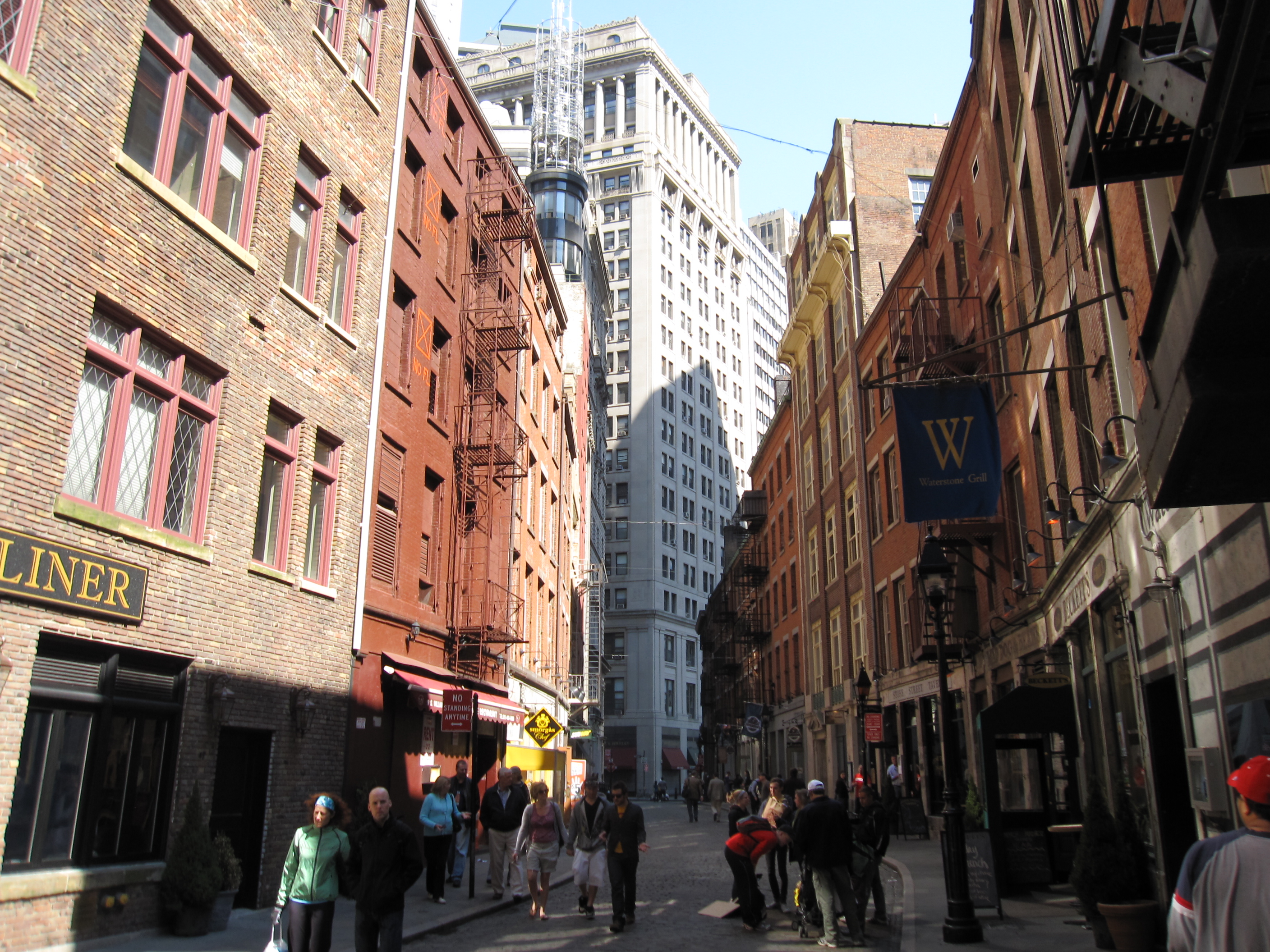 Stone Street in Manhattan